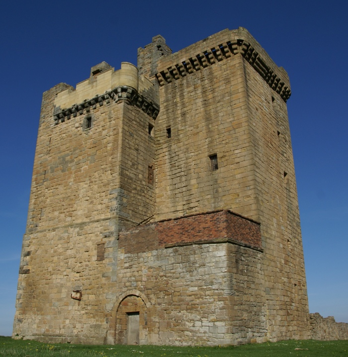 Clackmannan Tower, Scotland - view from the west